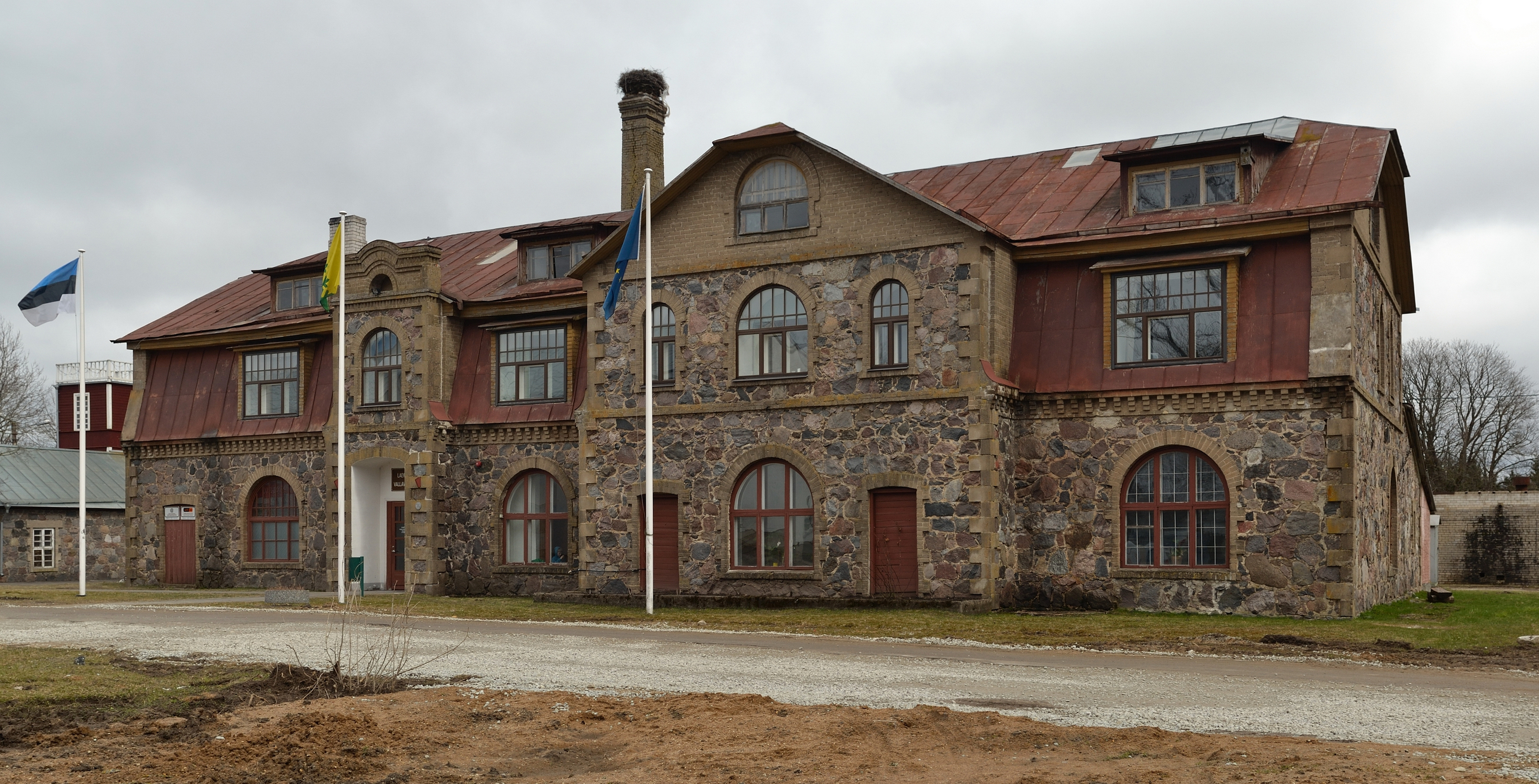 Laekvere diary house